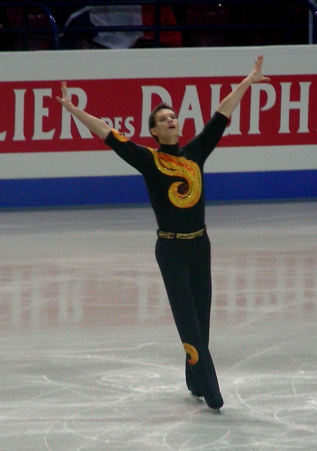 Przemysław Domański on the 2007 European Figure Skating Championships in Warsaw - free skate